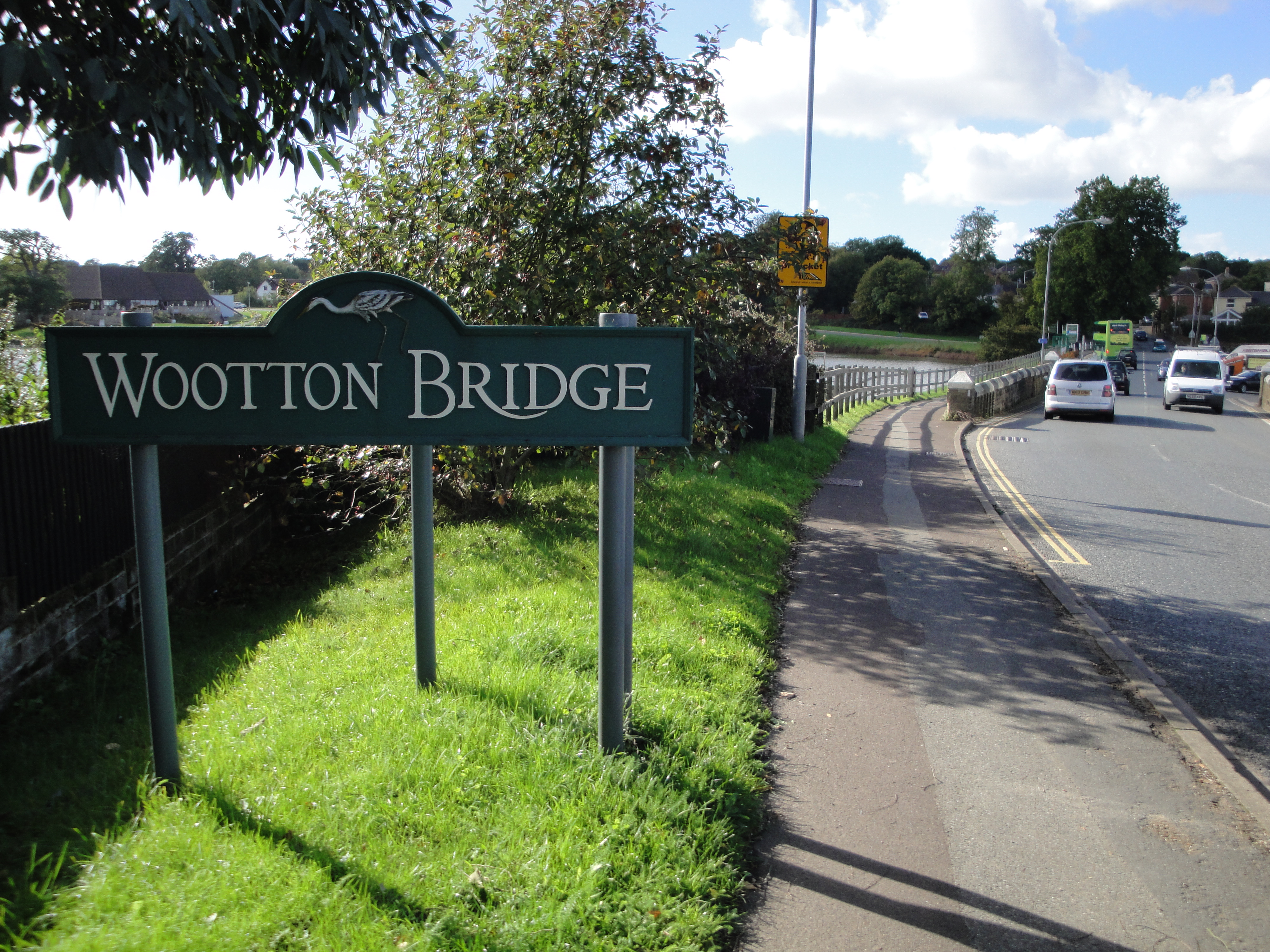 The sign entering Wootton Bridge, Isle of Wight on Kite Hill. The sign has been criticised by some local residents who feel it is in the wrong place and that Wootton also includes much more of Kite Hill than is implyed by the location of the sign. Despite calls for the sign to be moved, it has remained in this location.